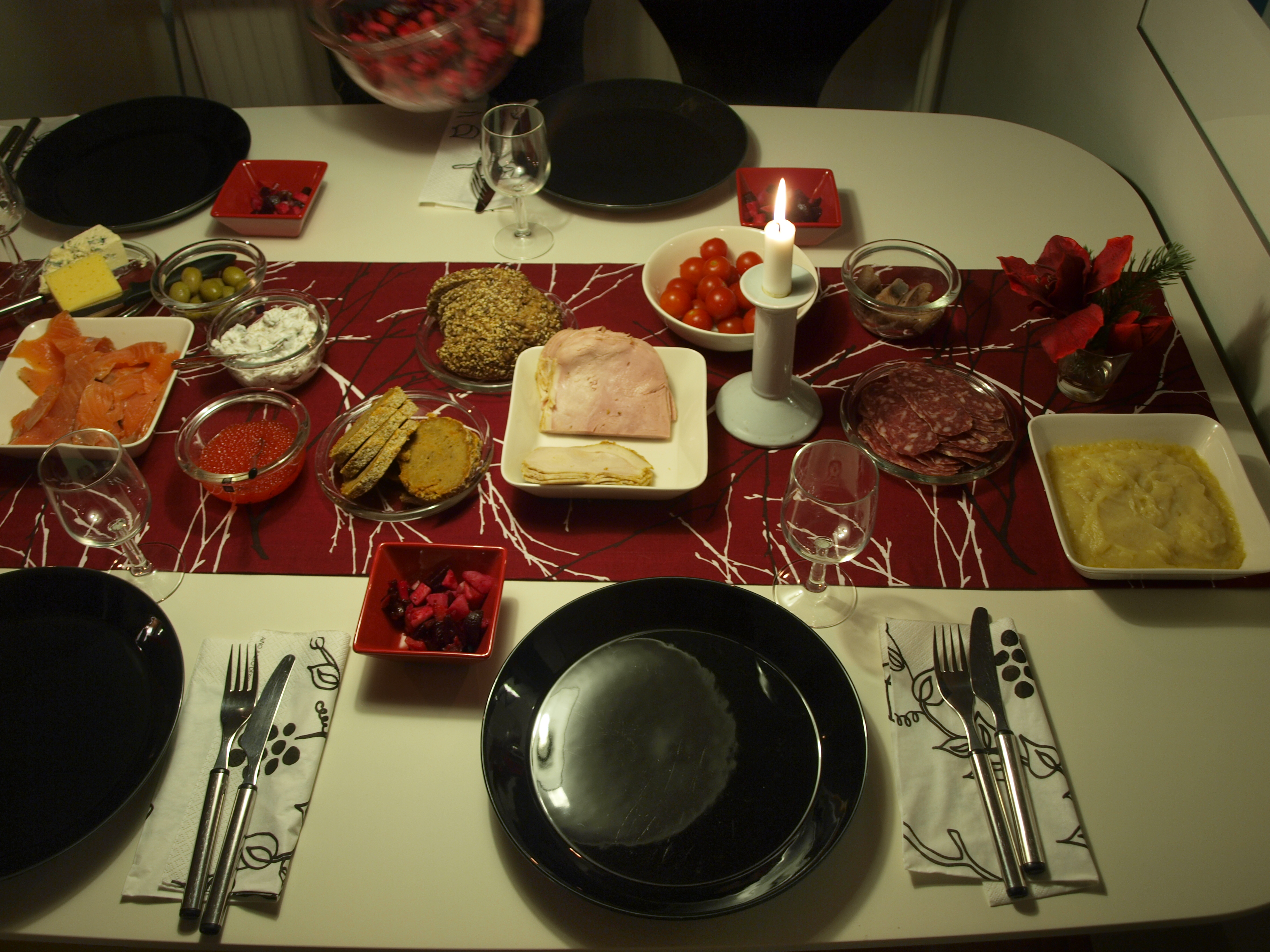 A slightly more modern version of the traditional Finnish joulupöytä Christmas meal. This dinner includes potato casserole, rosolli, gravlax, caviar, herring, olives, and various cheeses. The traditional Christmas ham has been replaced with a soy version.